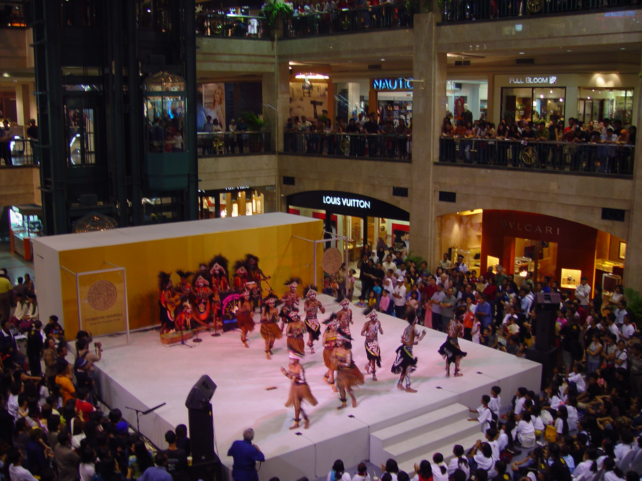 Mall cultural in Jakarta, Indonesia.